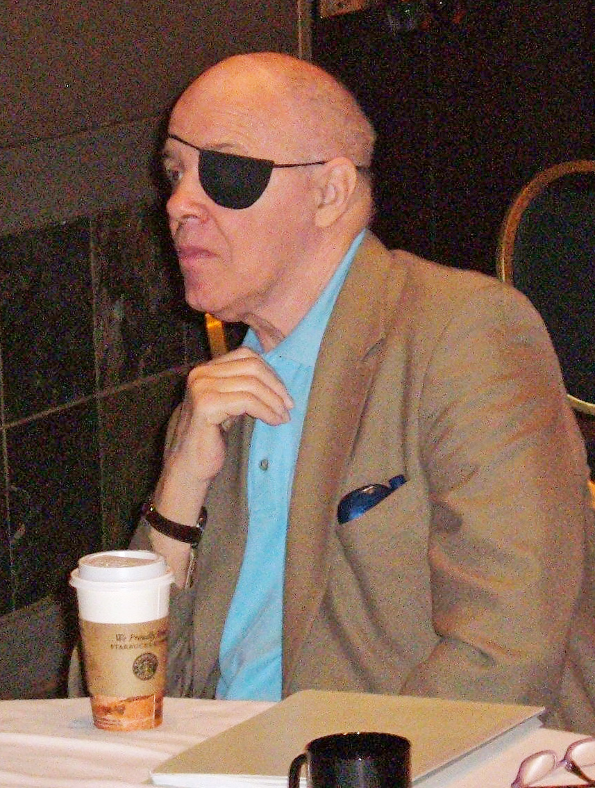 Paul J. Sally, Jr., Professor Mathematics at the University of Chicago. Photographed at the Legacy of R. L. Moore conference in Austin, Texas, July 2008